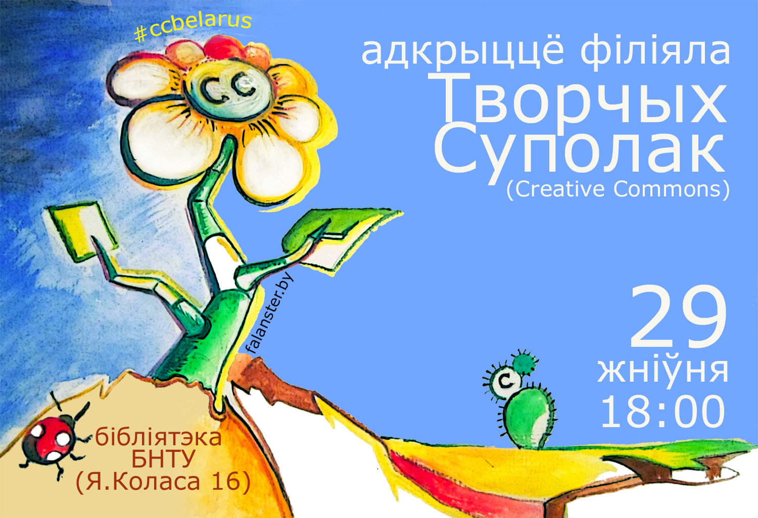 Poster for open CC affiliate in Belarus